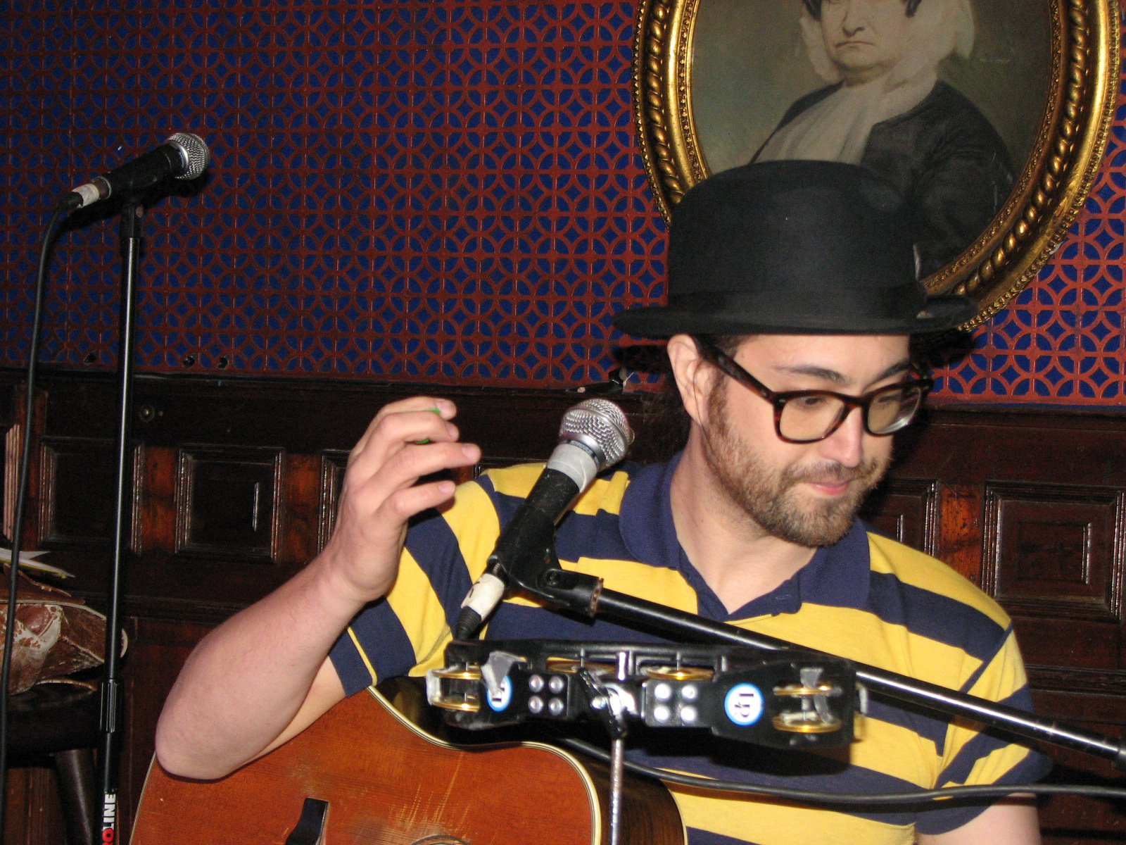 Brooklyn 2010